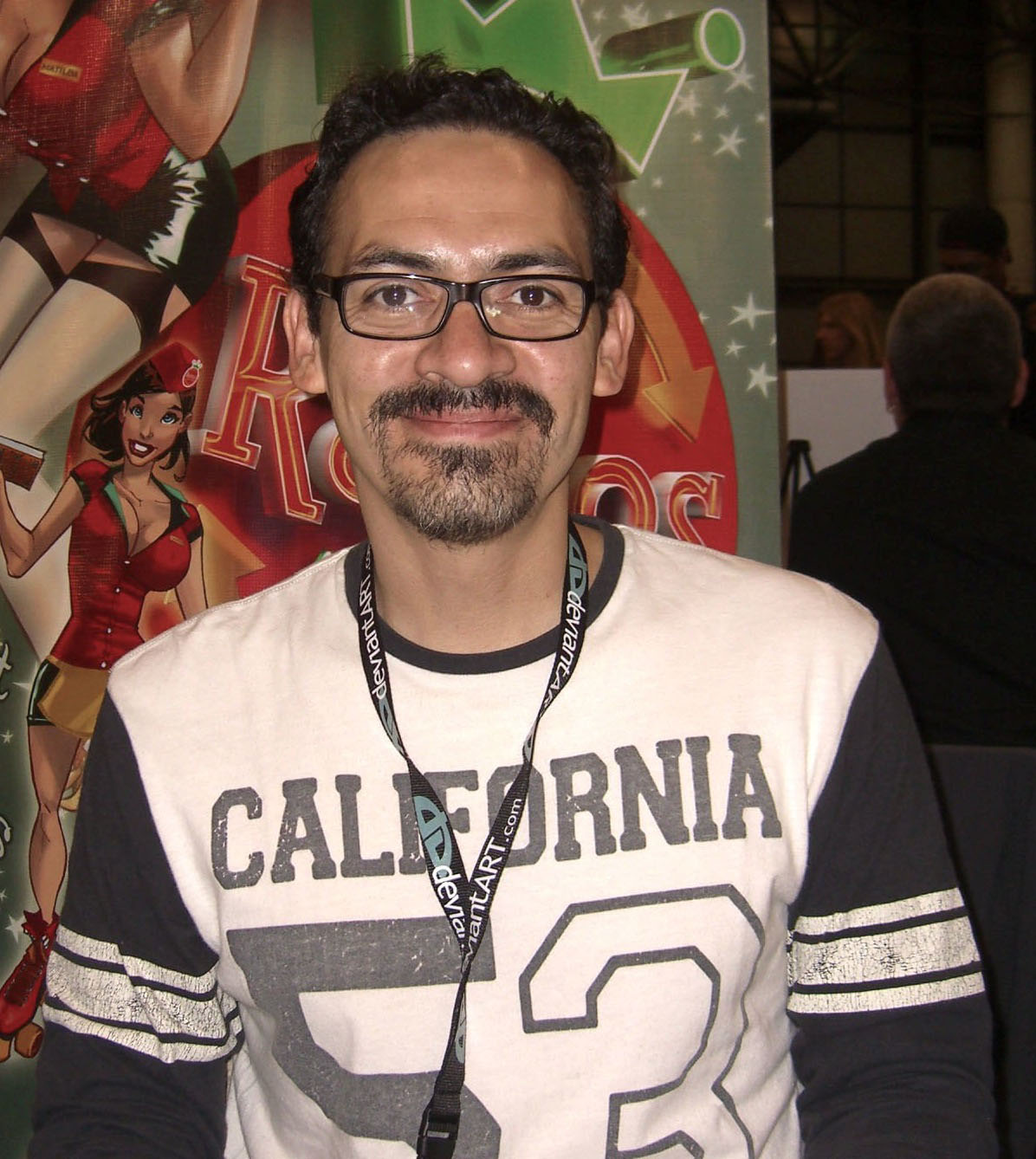 Comic book creator Humberto Ramos at the New York Comic Convention in Manhattan, October 9, 2010. This photo was created by Luigi Novi. It is not in the public domain, and use of this file outside of the licensing terms is a copyright violation.